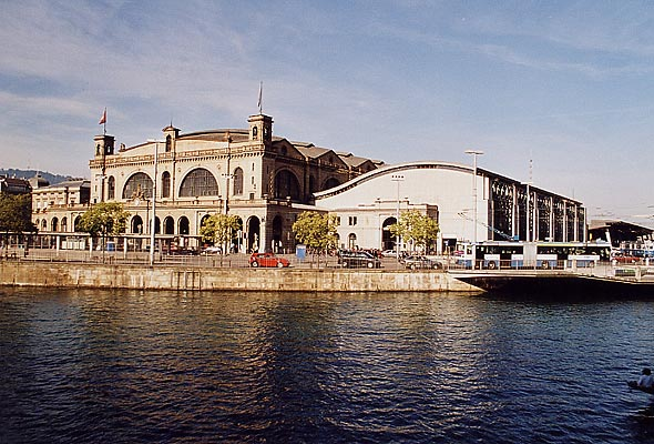 Zurich main station (railways) with Station Quay